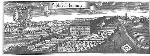 copperplate engraving of Michael Wening (1645–1718) of Schloss Schönach